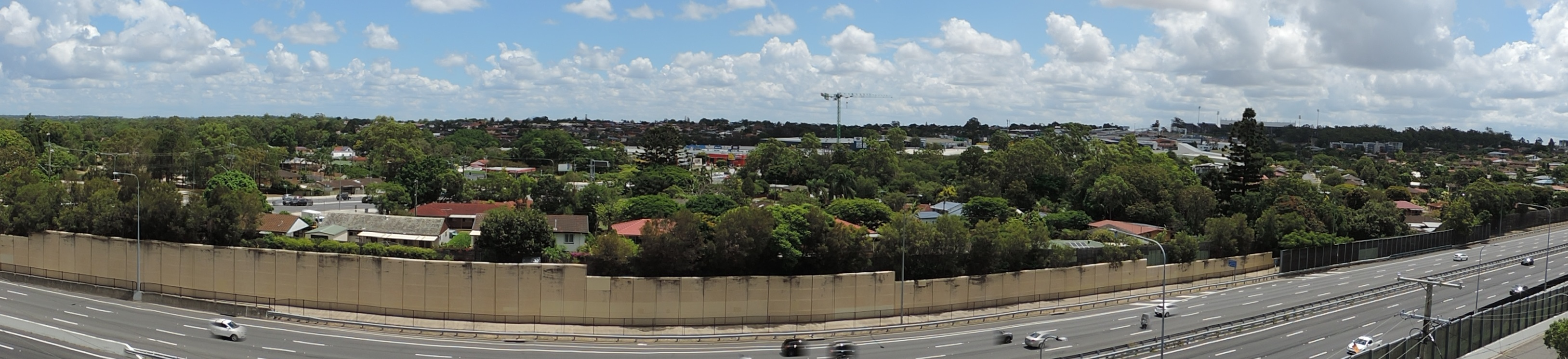 A panorama of the Brisbane suburb of MacGregor, Queensland, from Upper Mount Gravatt, facing west towards QE II Stadium. Shows start of change from standard housing to residential apartment blocks. Pacific Motorway in foreground (left going south to the Gold Coast, right going north to Brisbane.